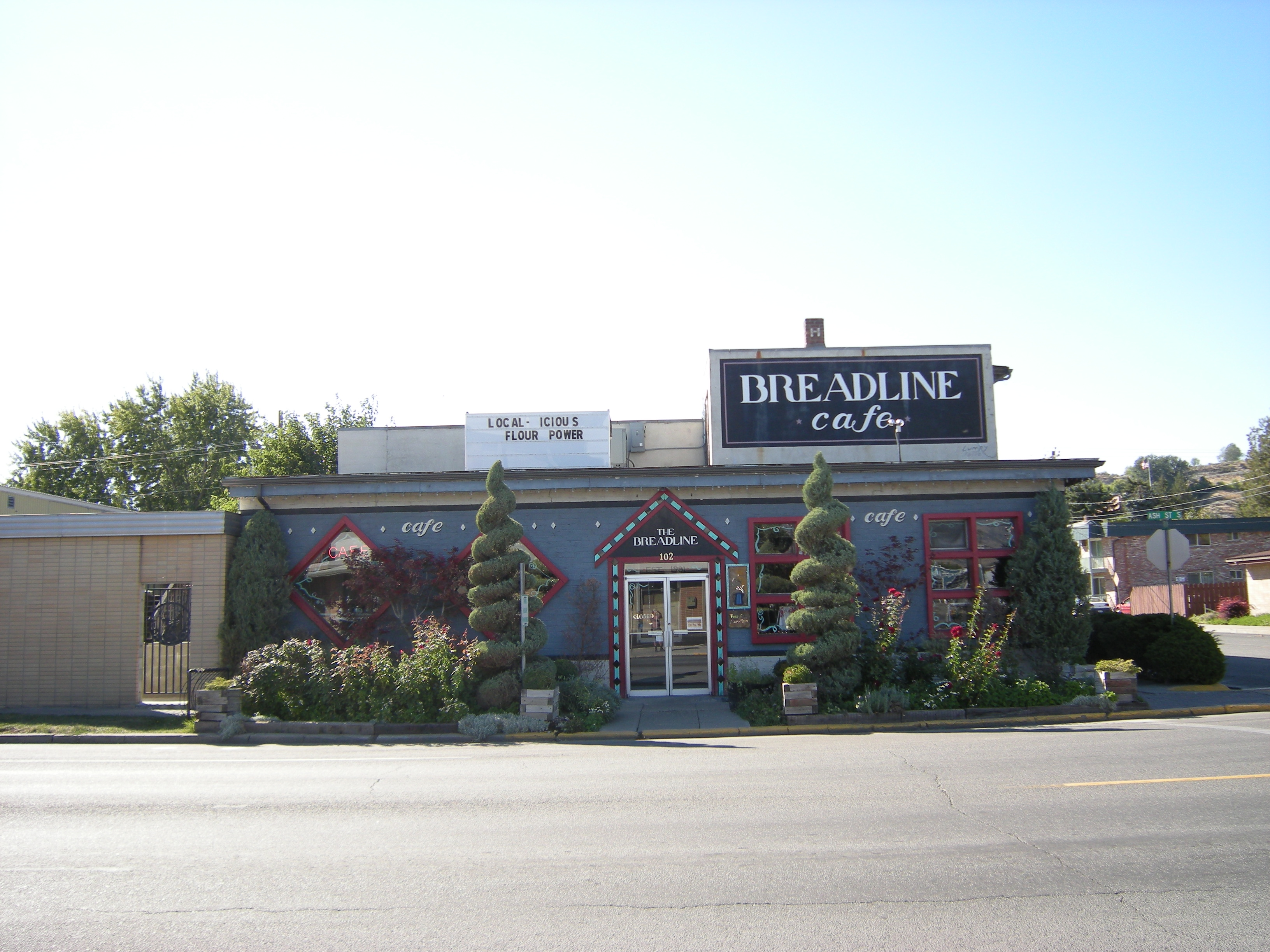 Breadline Café, Omak, Washington. A restaurant focused on local food; also a music venue.